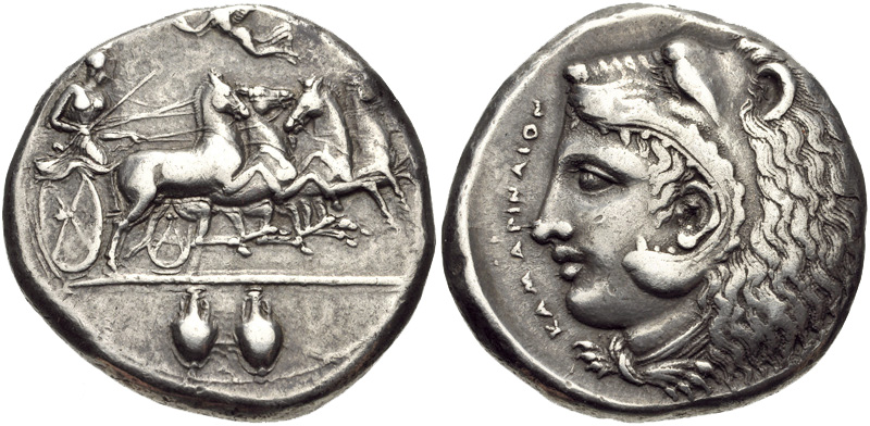 Sicilia, Camarina. Circa 425-405 BC. AR Tetradrachm (25mm, 16.90 g, 7h). Obverse die signed by Exakestidas. Athena driving galloping quadriga right, holding kentron in right hand, reins in left; above, Nike flying left, crowning her with filleted wreath; EΞAKEΣTIΔAΣ on exergual line; two amphorai in exergue Head of Heracles left, wearing lion skin; KAMAPINAION before; all within shallow incuse circle.